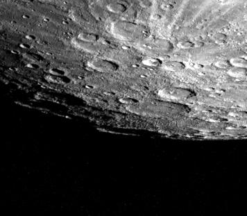 Mercury's south pole was photographed by one of Mariner 10's TV cameras as the spacecraft made its second close flyby of the planet September 21. The pole is located inside the large crater (180 kilometers, 110 miles) on Mercury's limb (lower center). The crater floor is shadowed and its far rim, illuminated by the sun, appears to de disconnected from the edge of the planet. Just above and to the right of the South Pole is a double ring basin about 100 kilometers (125 miles) in diameter. A bright ray system, splashed out of a 50 kilometer (30 mile) crater is seen at upper right. The stripe across the top is an artifact introduced during computer processing. The picture (FDS 166902) was taken from a distance of 85,800 kilometers (53,200 miles) less than two hours after Mariner 10 reached its closest point to the planet.